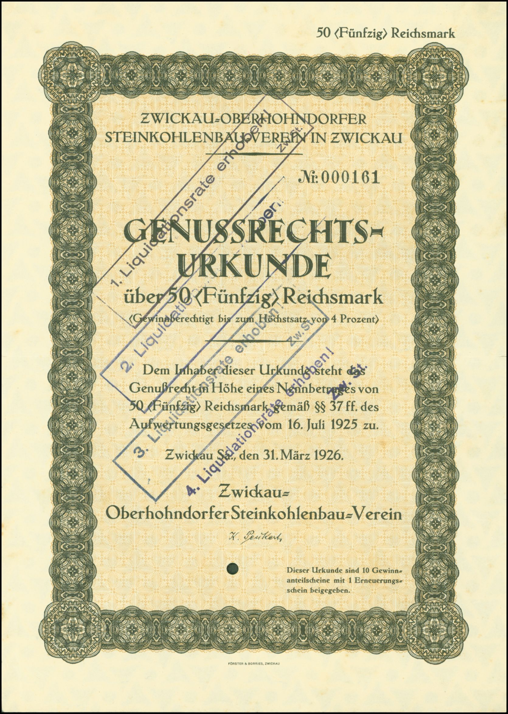 Participation certificate of the Zwickau-Oberhohndorfer Steinkohlenbauverein in Zwickau, issued 31. March 1926